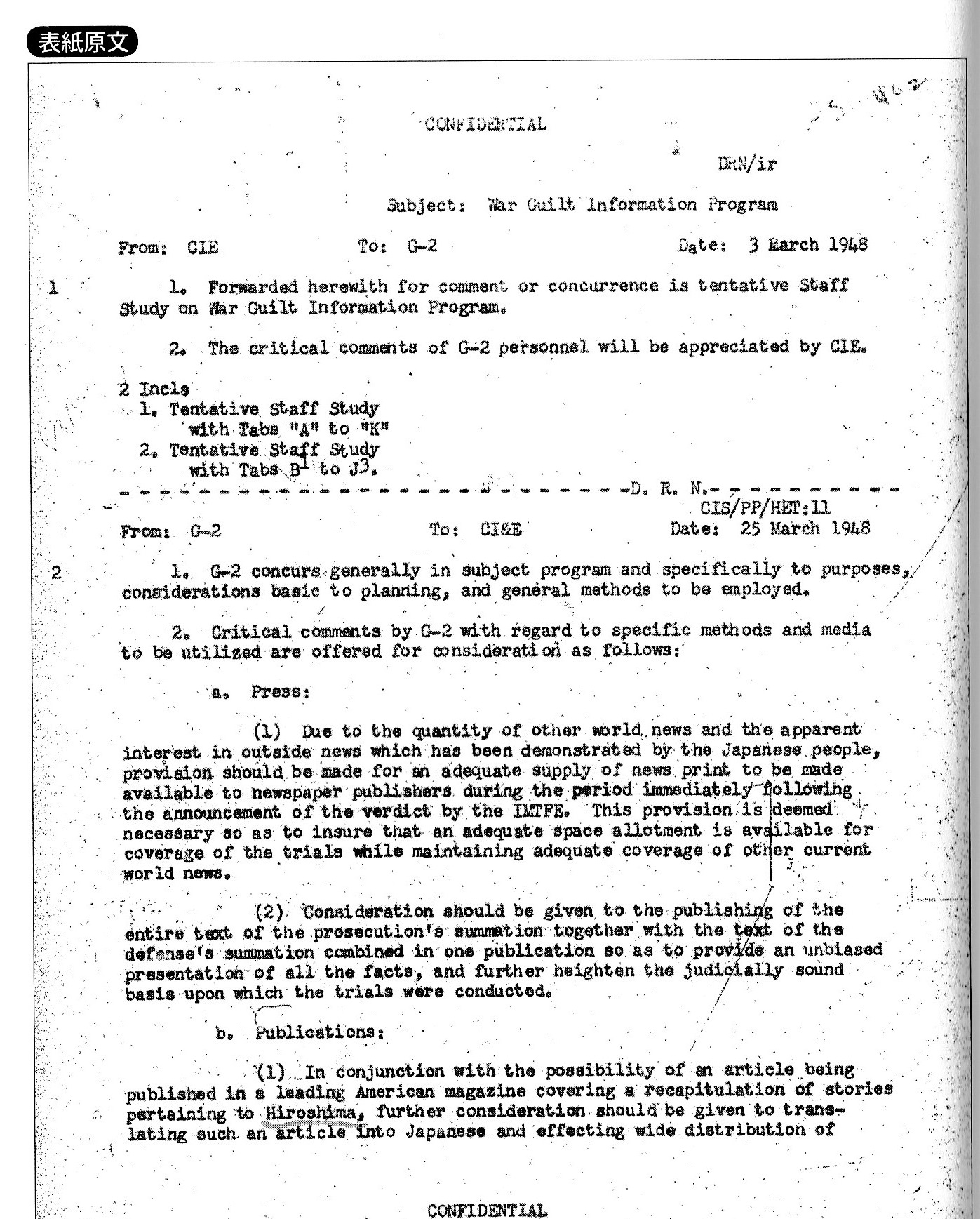 War Guilt Information Program